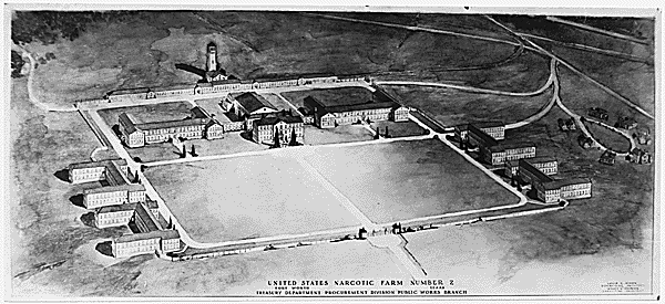 The Narcotic Farms Act of 1929 authorized the establishment of two narcotic farms for the preventive custody and remedial care of individuals acquiring a sedative dependence for habit-forming narcotic drugs. The narcotic farms became known as the United States Public Health Service Hospitals with the first infirmary opening in 1935 at Lexington, Kentucky while the second infirmary opened in 1938 at Fort Worth, Texas. The narcotic farm concept was abandoned by 1975 due to advancement in medication treatment.